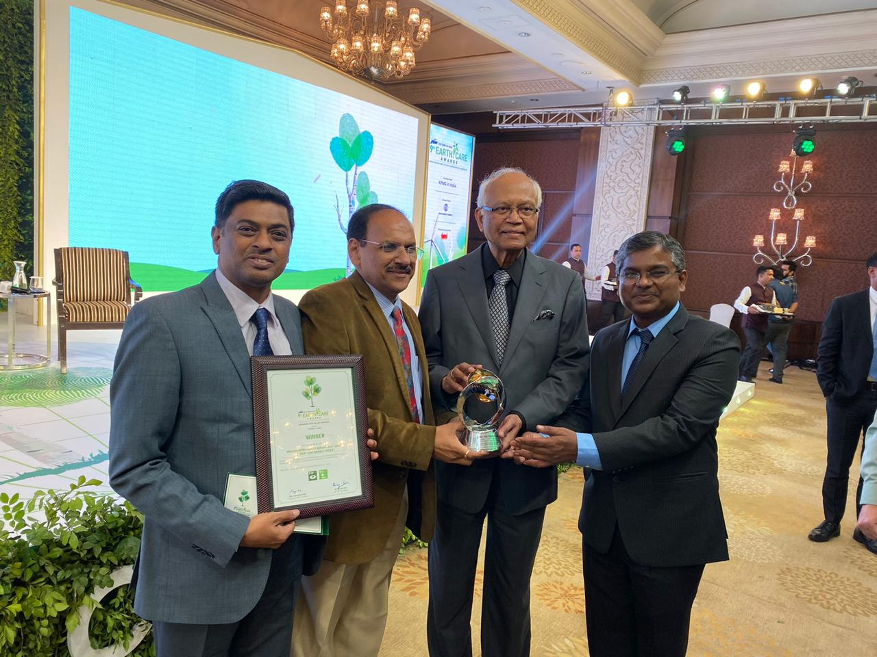 9th Earth Care Award for adopting an integrated approach to afforestation with holistic information technology interventions from plantation planning to post plantation survival monitoring. The project contributes to the UN Sustainable Development Goals (2019)